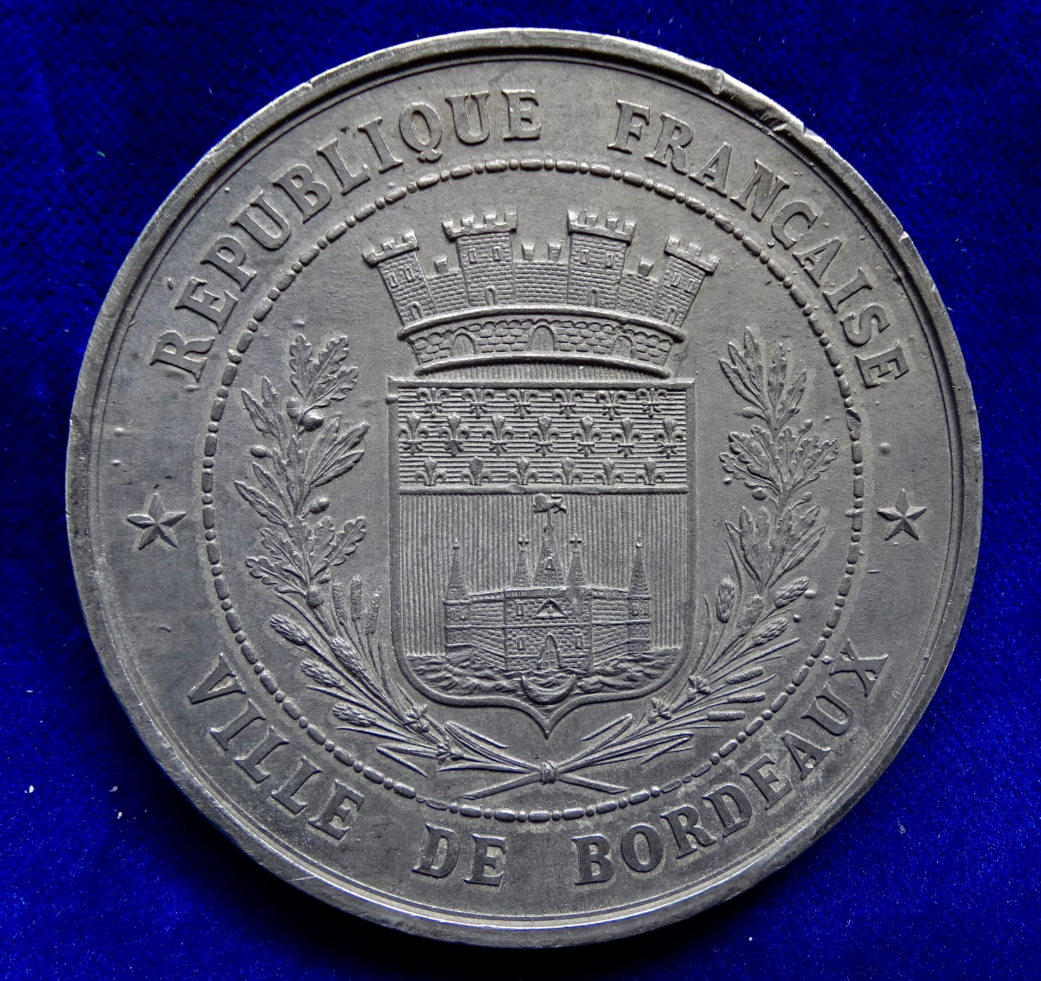 Base metal medallion d. = 64 mm. Coat of arms of Bordeaux, around: "* RÉPUBLIQUE FRANÇAISE * VILLE DE BORDEAUX *"/ "L' ASSEMBLÉE NATIONALE DÉLIBERANT A BORDEAUX PENDANT LE SIÈGE DE PARIS" around 14 lines: "LE 12 FÉVRIER 1871 LE CITN JULES FAVRE VA ORGANISER L ASSAMBLÉE NATLE DANS LE THÉATRE - LE 17 FEVR LE CITN THIERS EST NOMMÉ CHEF DU POUVOIR ÉXÉCUTIF DE LA RÉPUBE FRANCE - LE 4 MARS L' ASSEMBLÉE NATLE VOTE LES PRÉLIMINAIRES DE LA PAIX PAR 546 CONTRE 107 - LA DÉCHÉANCE DE NAPOLÉON III EST VOTÉE A L' UNAMITÉ MOINS 5 VOIX". Condition: VERY FINE, several edge nicks.